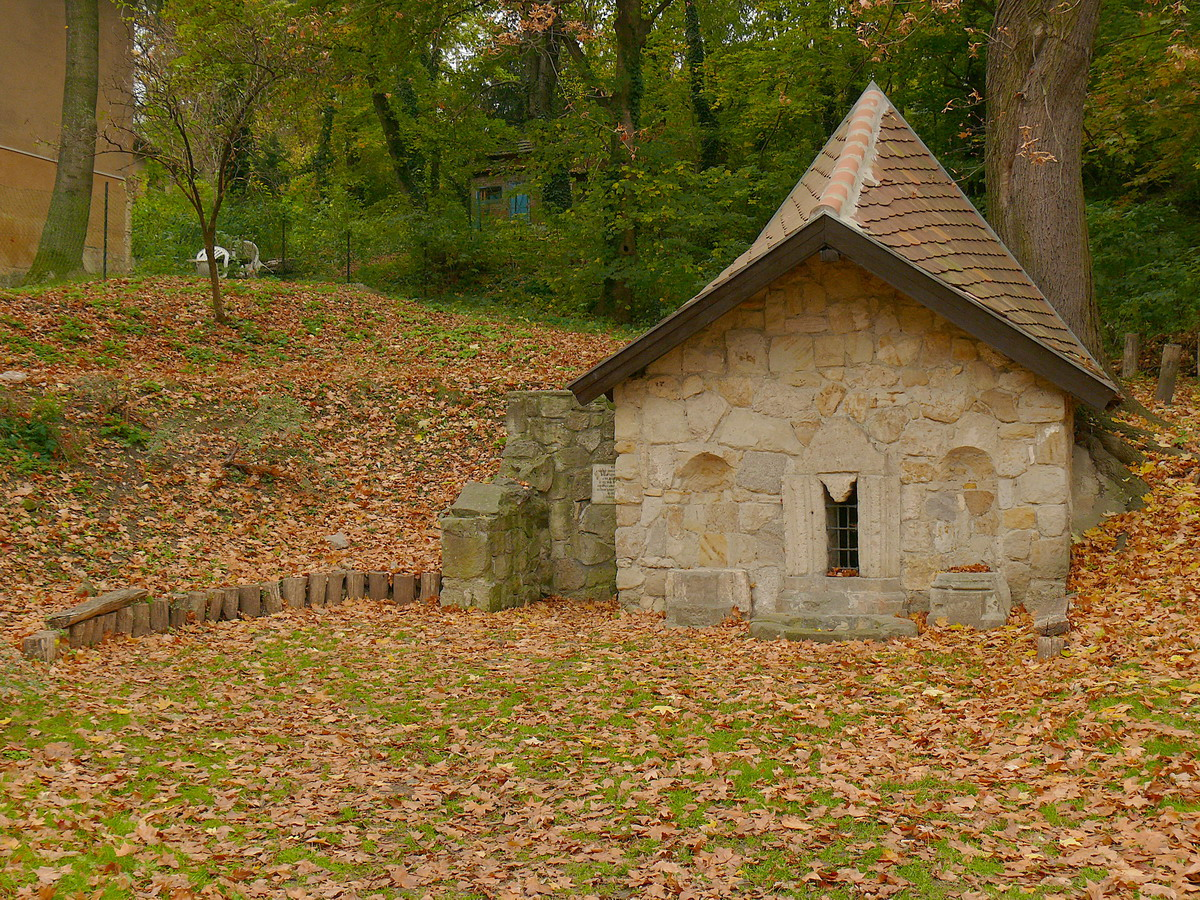 The spring-catchement of the medieval water-conduit of Budapest